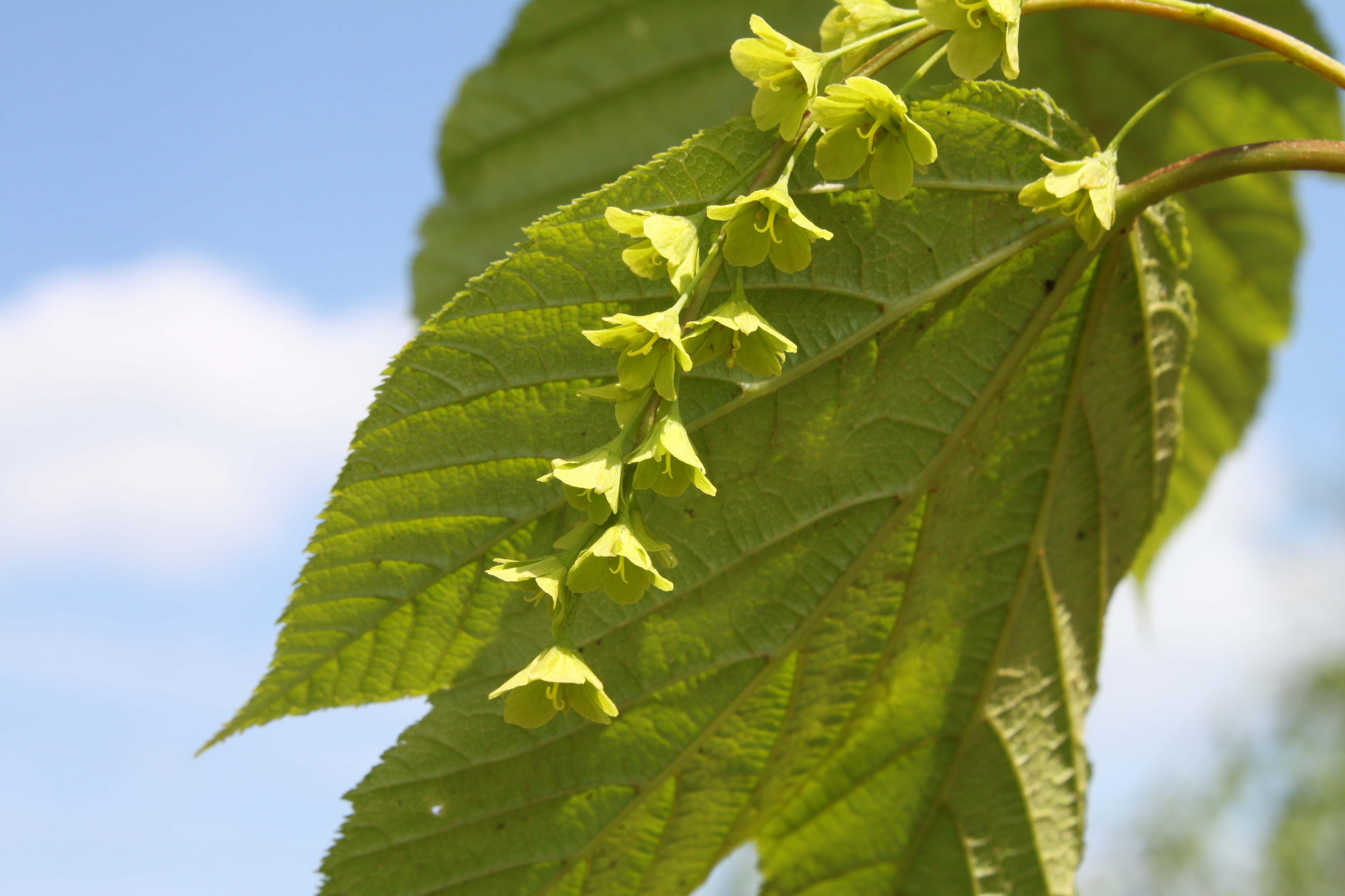 Acer pensylvanicum flowers, Marki